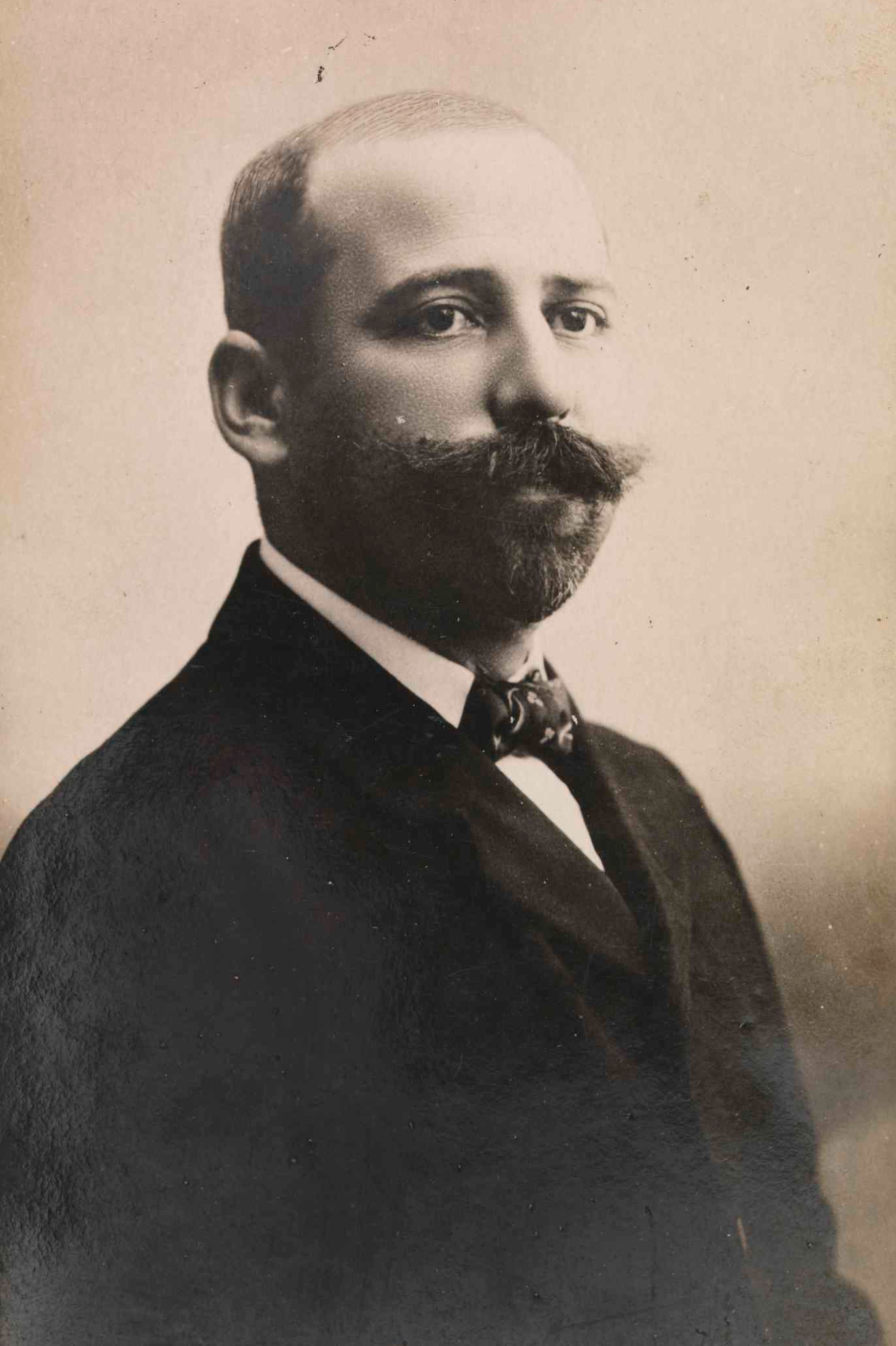 João Duarte de Meneses (1868-1918), Portuguese lawyer, journalist and politician.